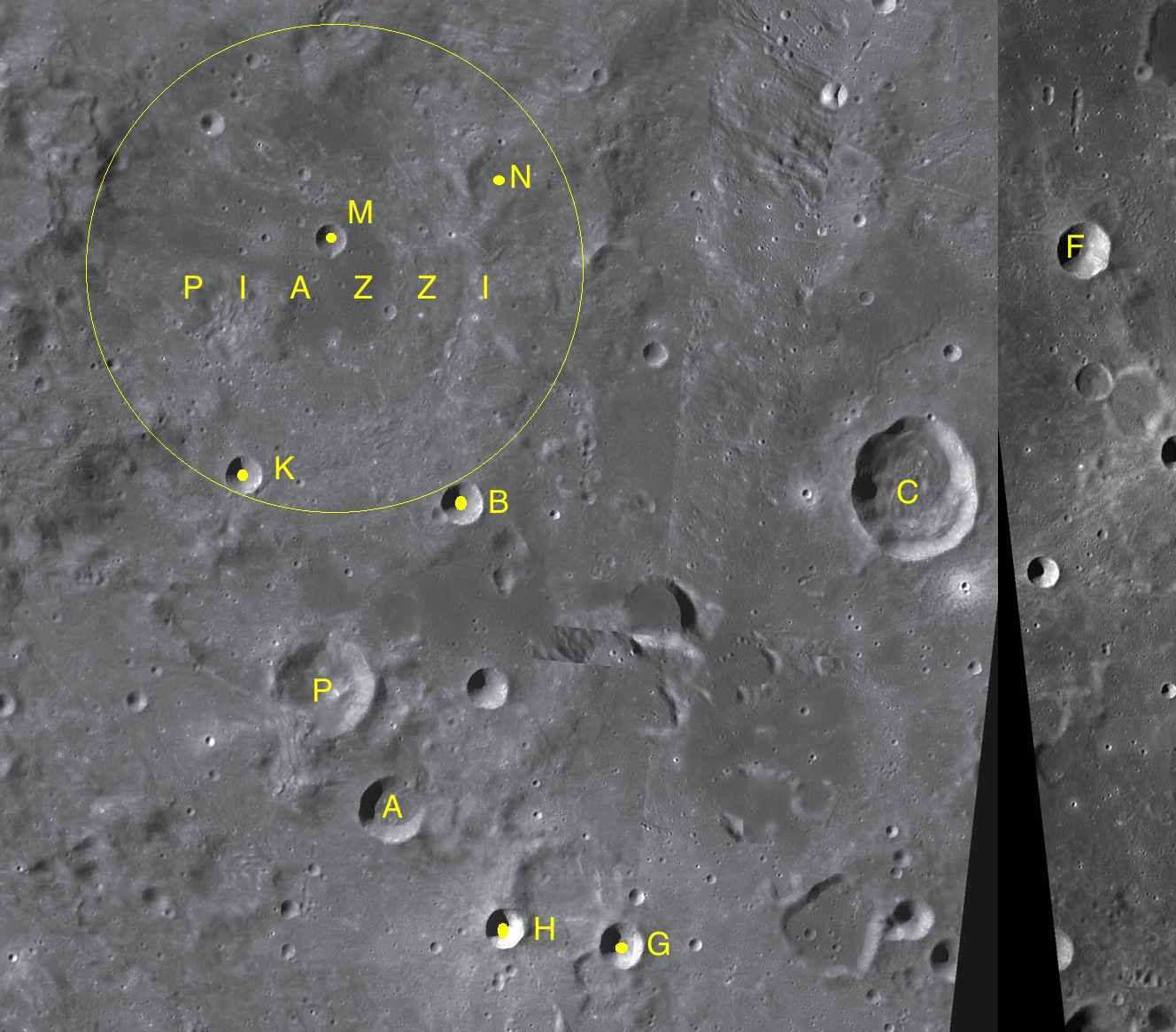 Part of the charts LAC-109, LAC-110 used for the presentation